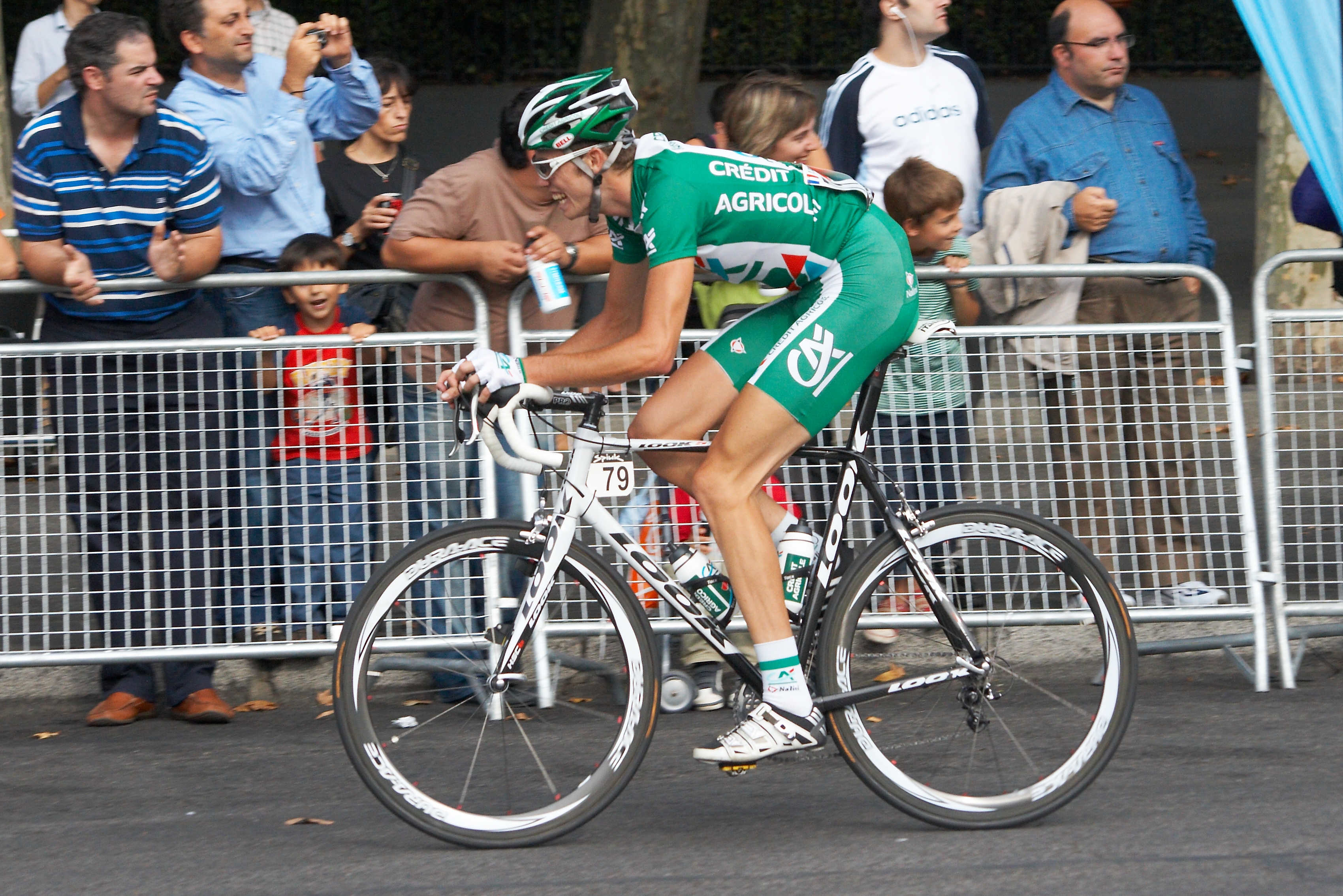 TALABARDON Yannick (79/FRA), 2008 Vuelta a España, Madrid, Spain.